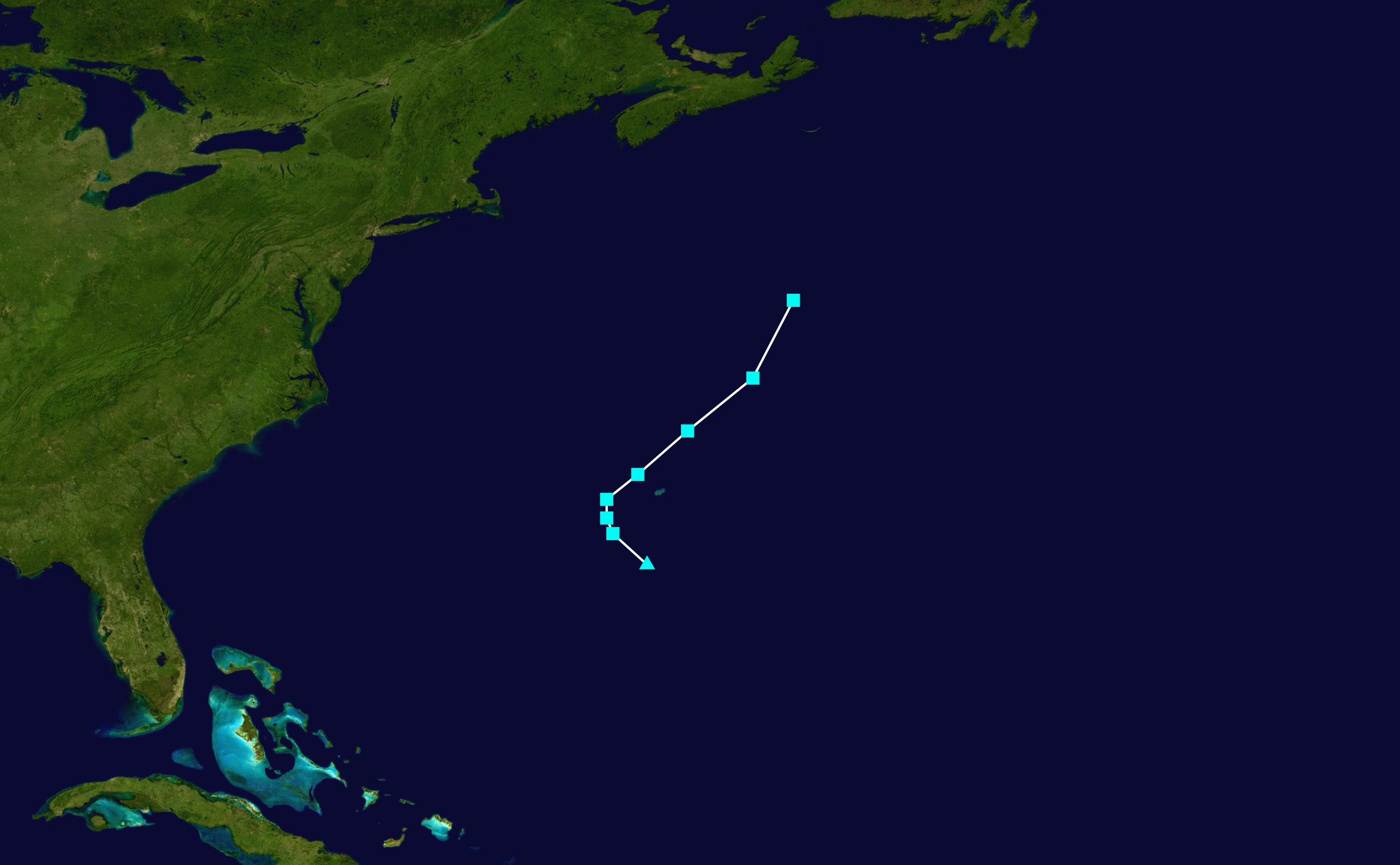 Track map of Subtropical Storm Nicole of the 2004 Atlantic hurricane season. The points show the location of the storm at 6-hour intervals. The colour represents the storm's maximum sustained wind speeds as classified in the Saffir–Simpson scale (see below), and the shape of the data points represent the nature of the storm, according to the legend below. Saffir–Simpson scale Tropical depression≤38 mph≤62 km/h Category 3111–129 mph178–208 km/h Tropical storm39–73 mph63–118 km/h Category 4130–156 mph209–251 km/h Category 174–95 mph119–153 km/h Category 5≥157 mph≥252 km/h Category 296–110 mph154–177 km/h Unknown Storm type Tropical cyclone Subtropical cyclone Extratropical cyclone / Remnant low / Tropical disturbance / Monsoon depression